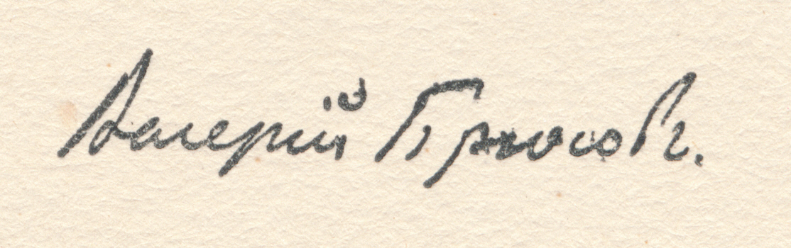 A photograph of Valery Bryusov in 1899